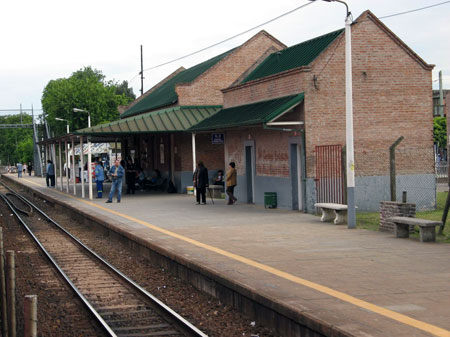 Villa Adelina Train Station